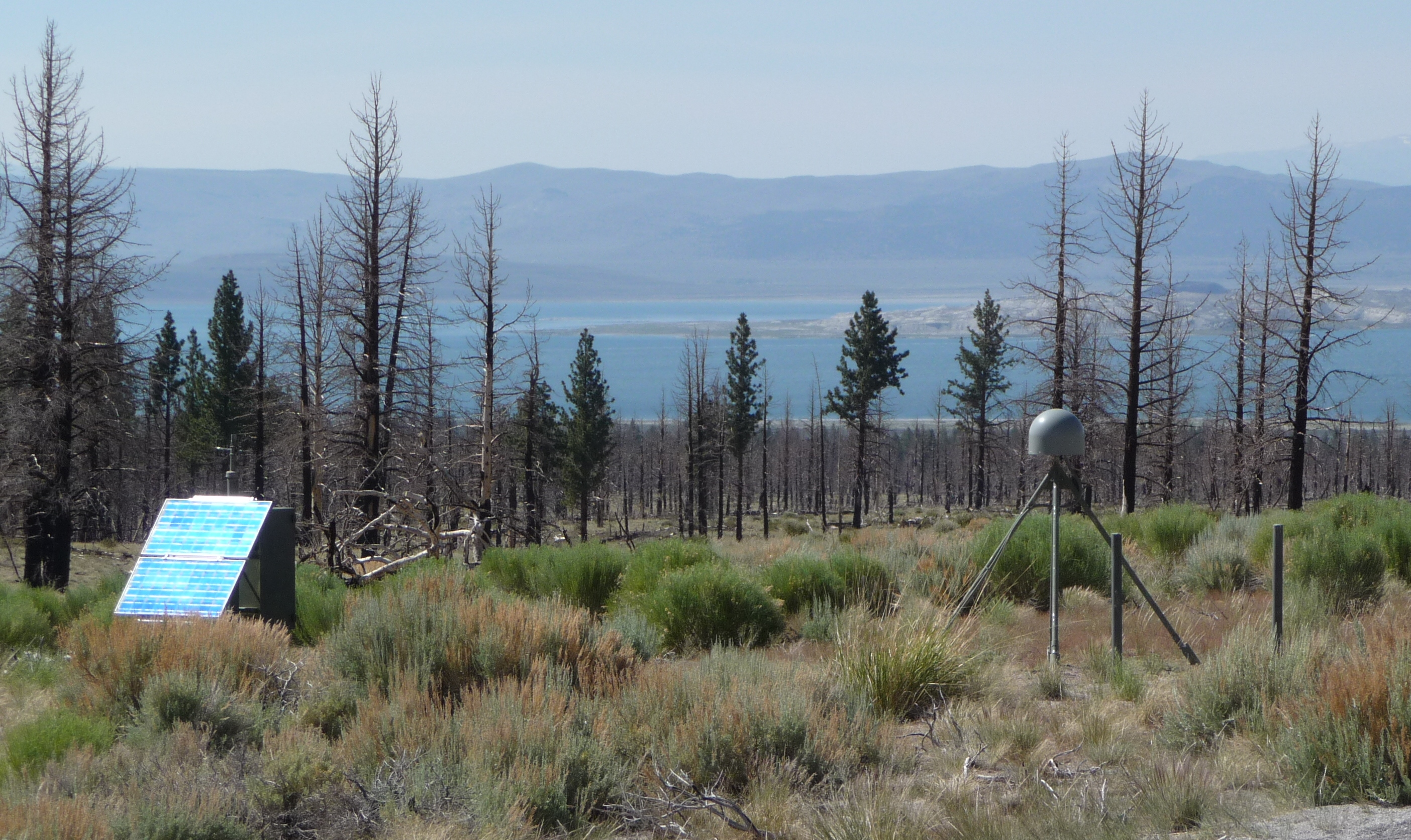 Environmental monitoring equipment, Mono Mills, California, Eastern Sierra Nevada, California. Mono Lake in the background.